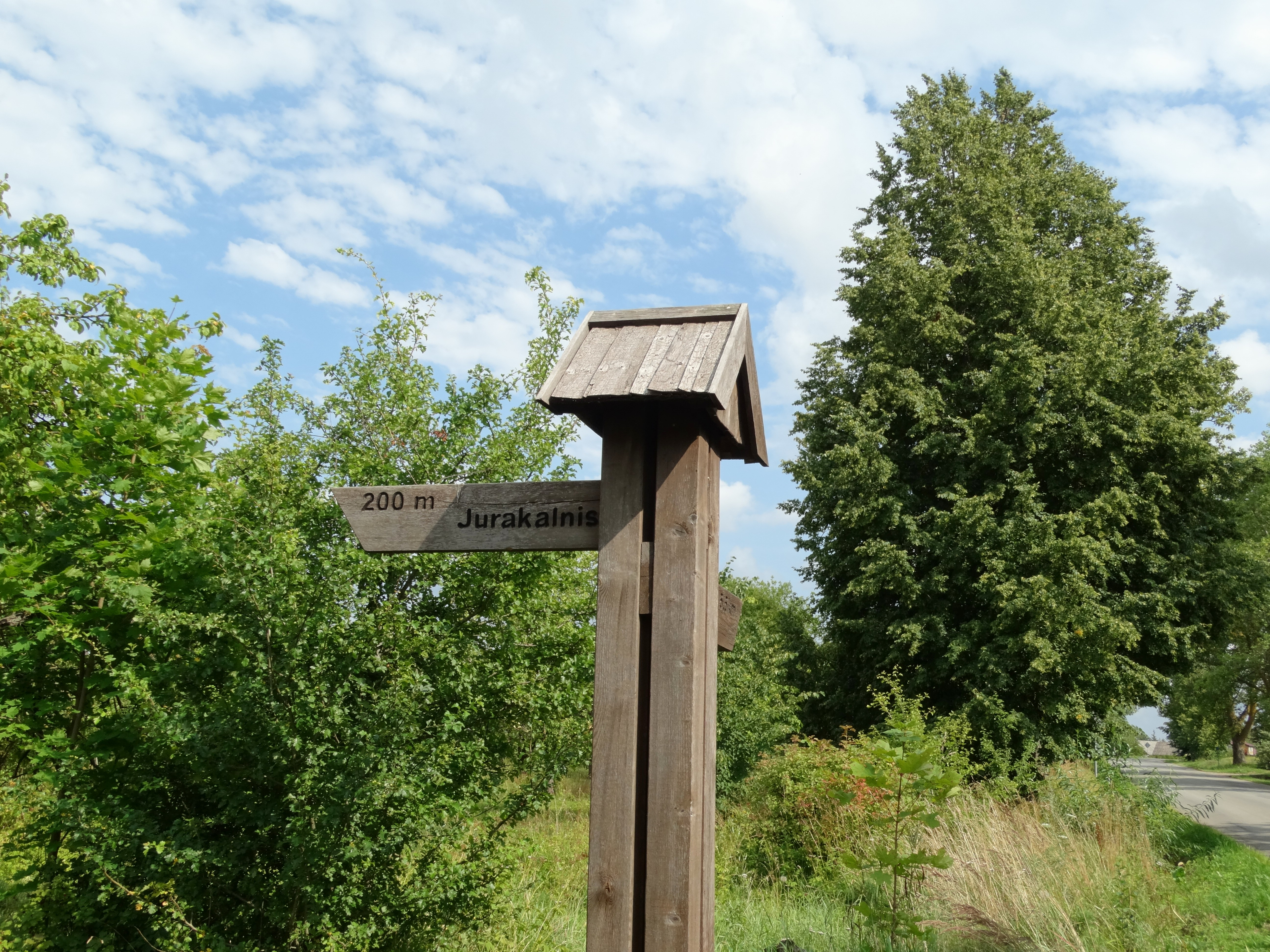 Jurakalnis by Papilė, Akmenė district, Lithuania